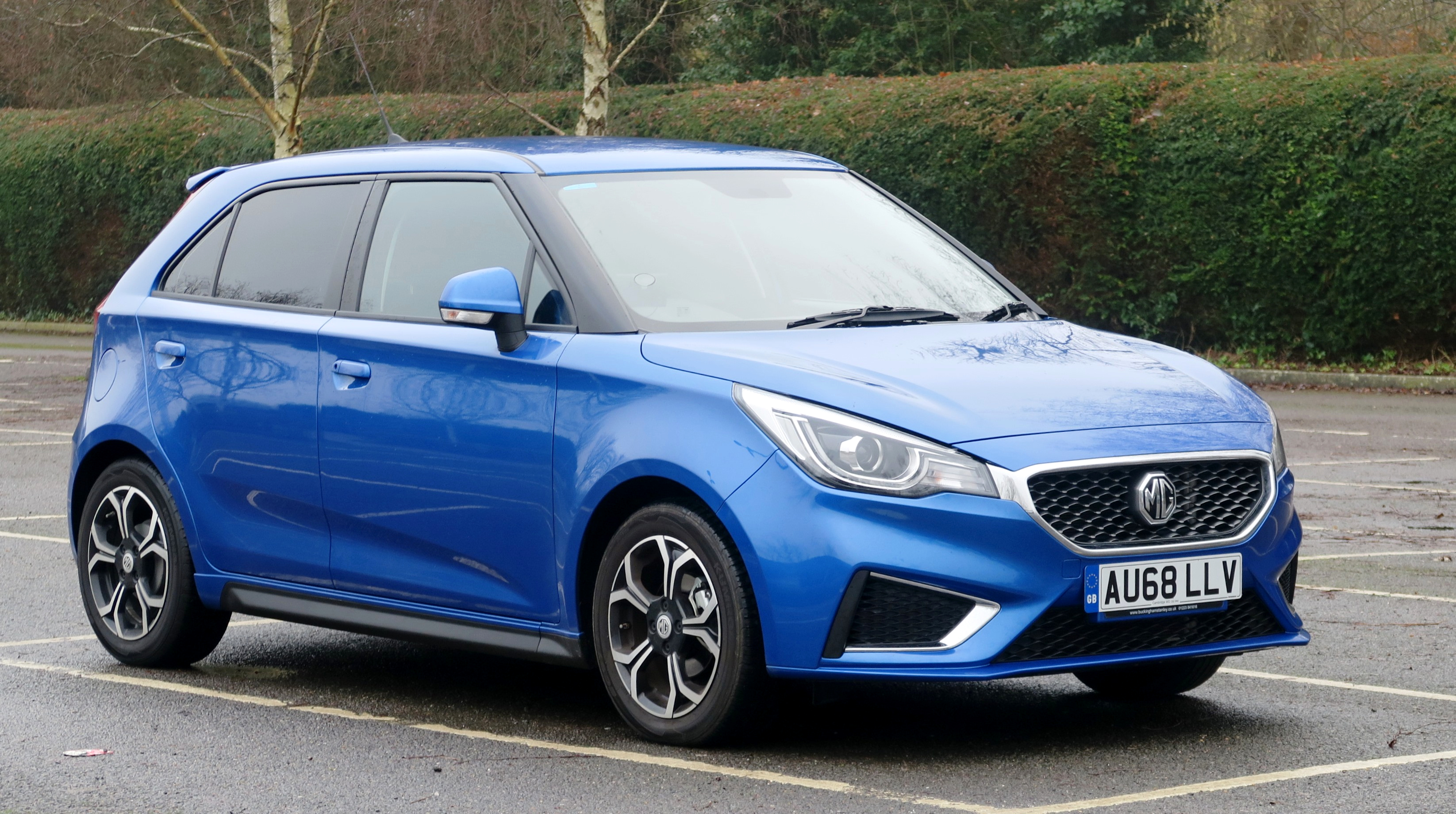 MG3 "Exclusive" in Great Shelford License plate has been changed for anonymisation purposes but year code remains unchanged